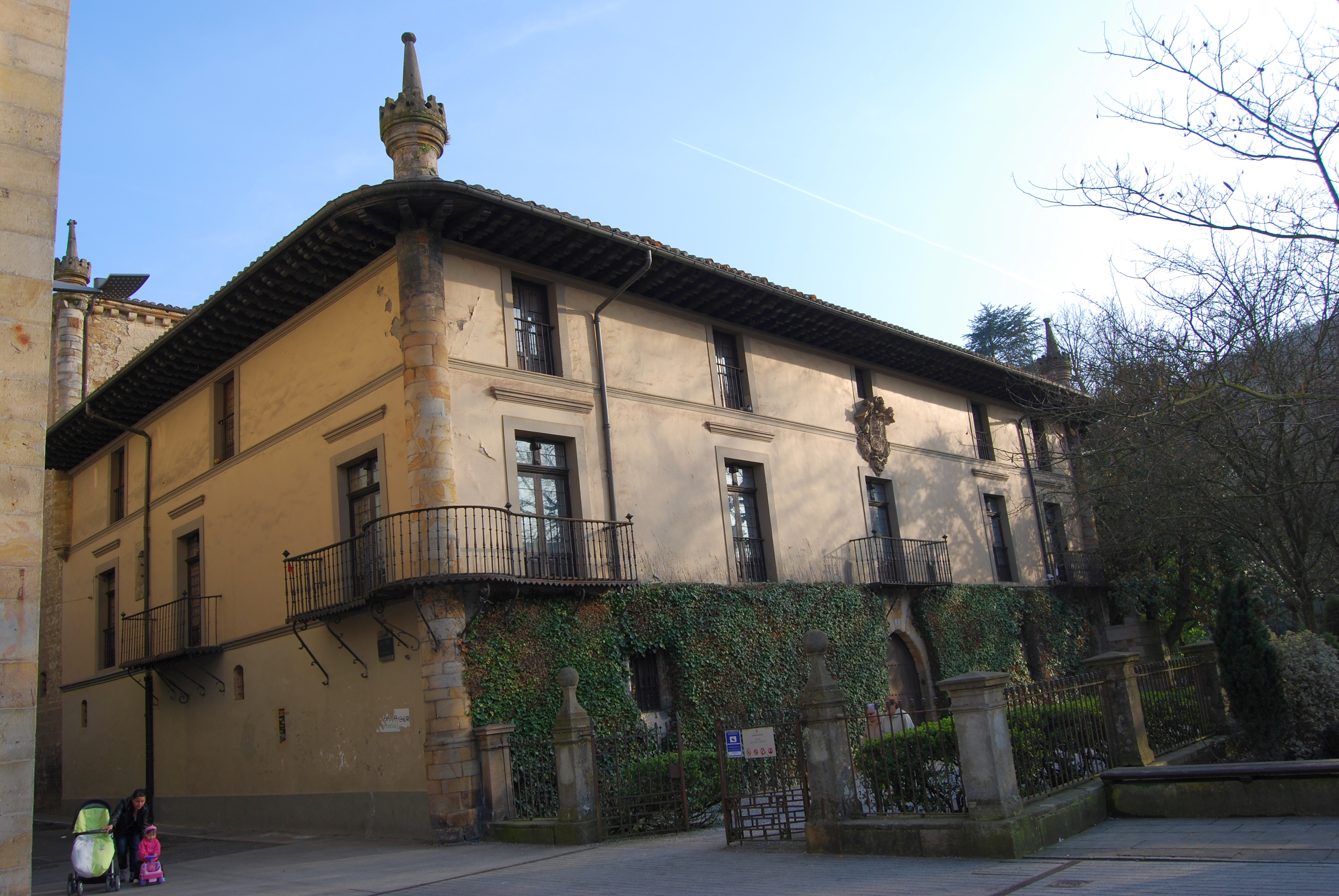 Lazarraga Palace, Oñati, viewed from the North